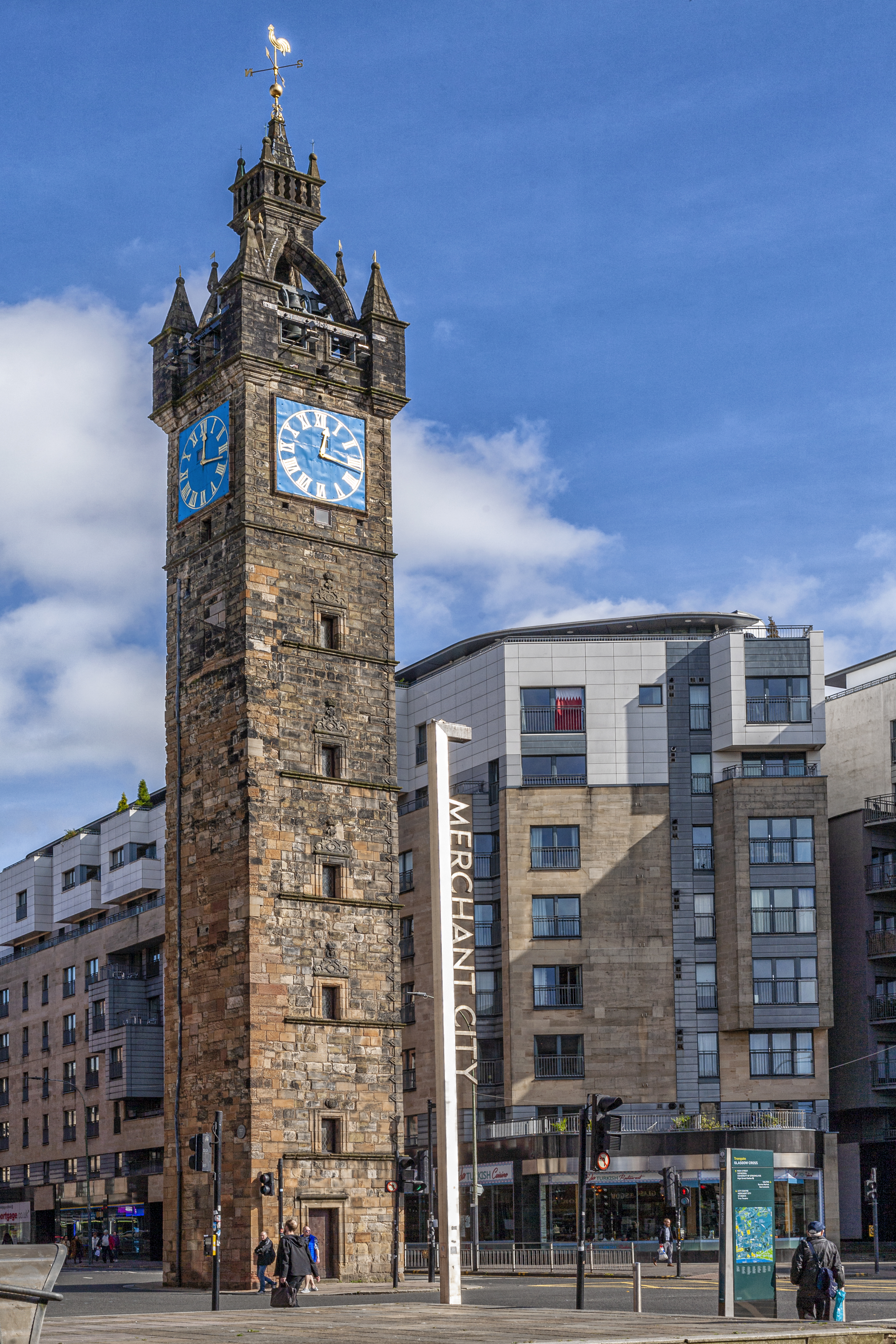 High Street, Tolbooth Steeple Wikidata has entry Q17567493 with data related to this item.